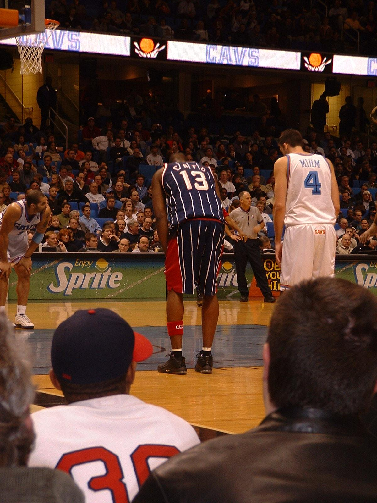 Game second half Cato and Mihm